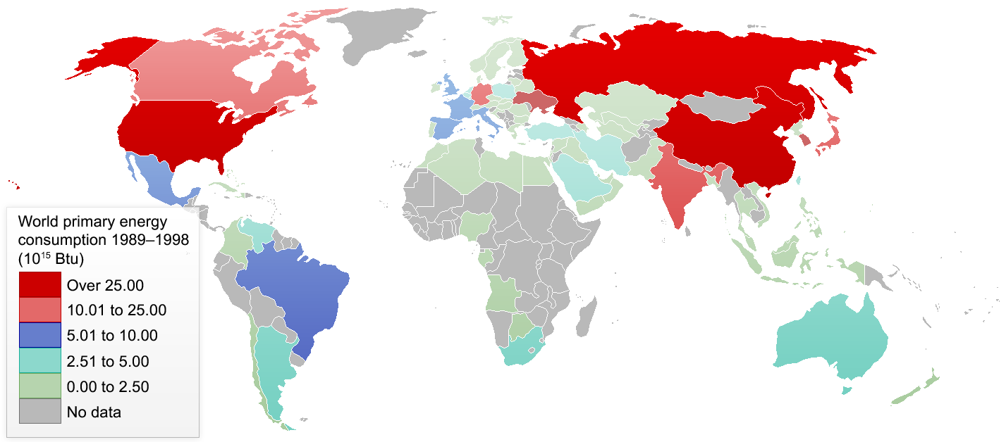 This is a free and less-mind warping version of Image:Energyconsumption.jpg. Created by User:SG (en.wiki).